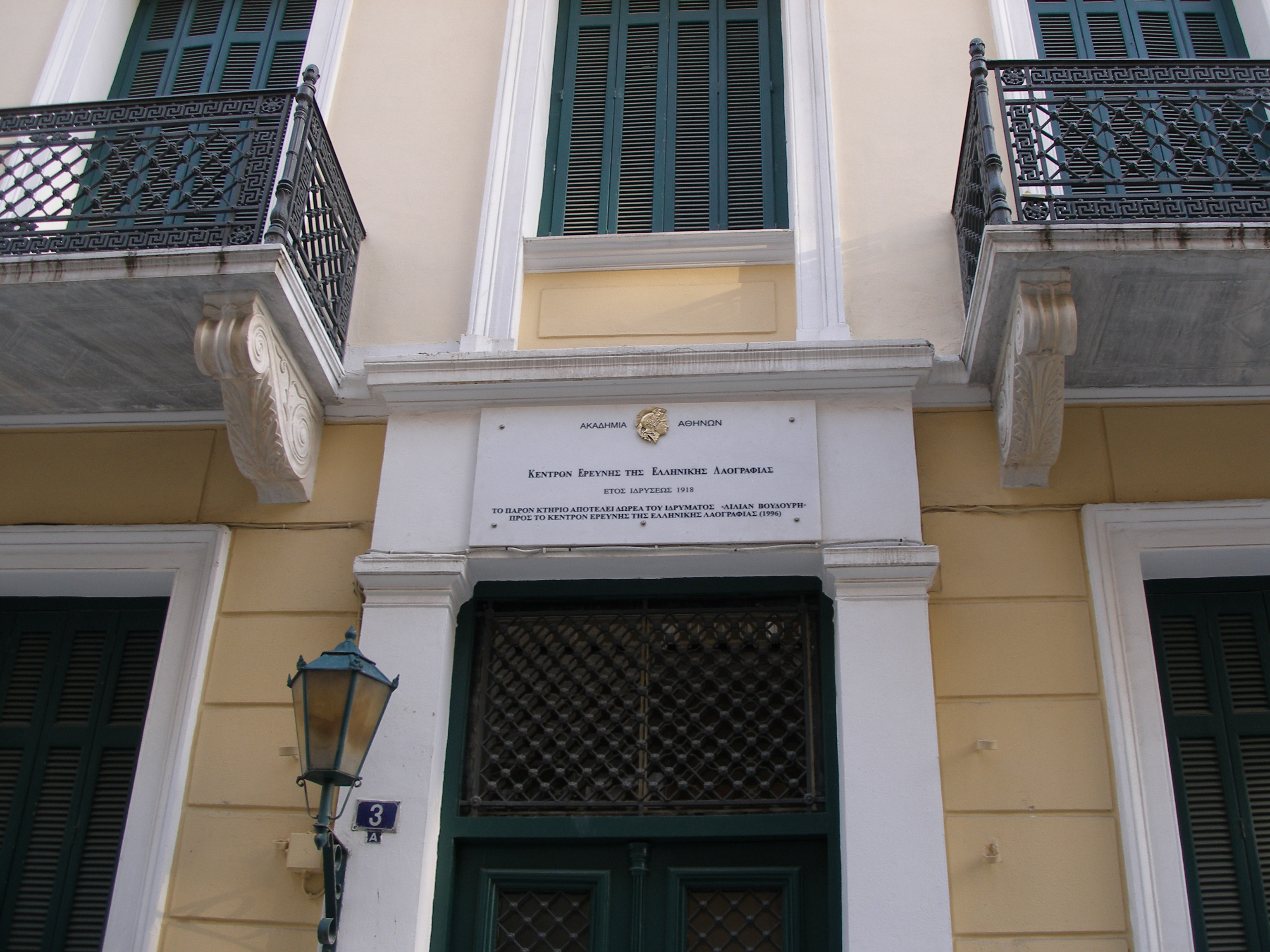 Facade of Hellenic Folklore Research Centre of the Academy of Athens